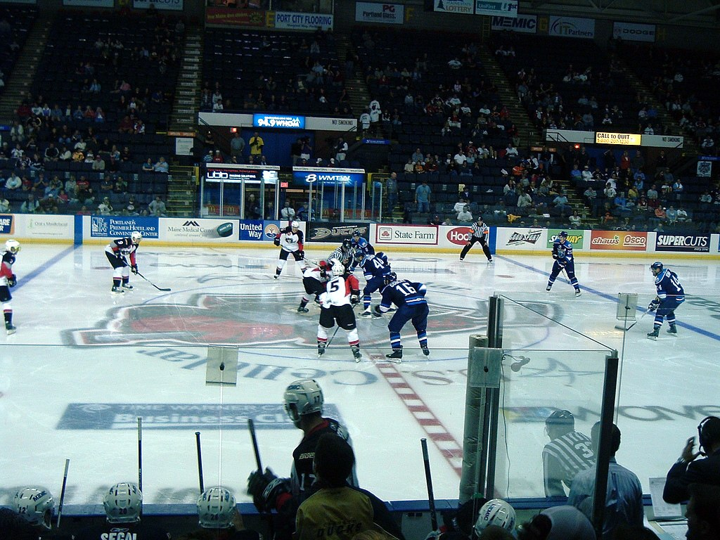 Opening faceoff of the third period, Portland vs. Springfield, 5 October 2007